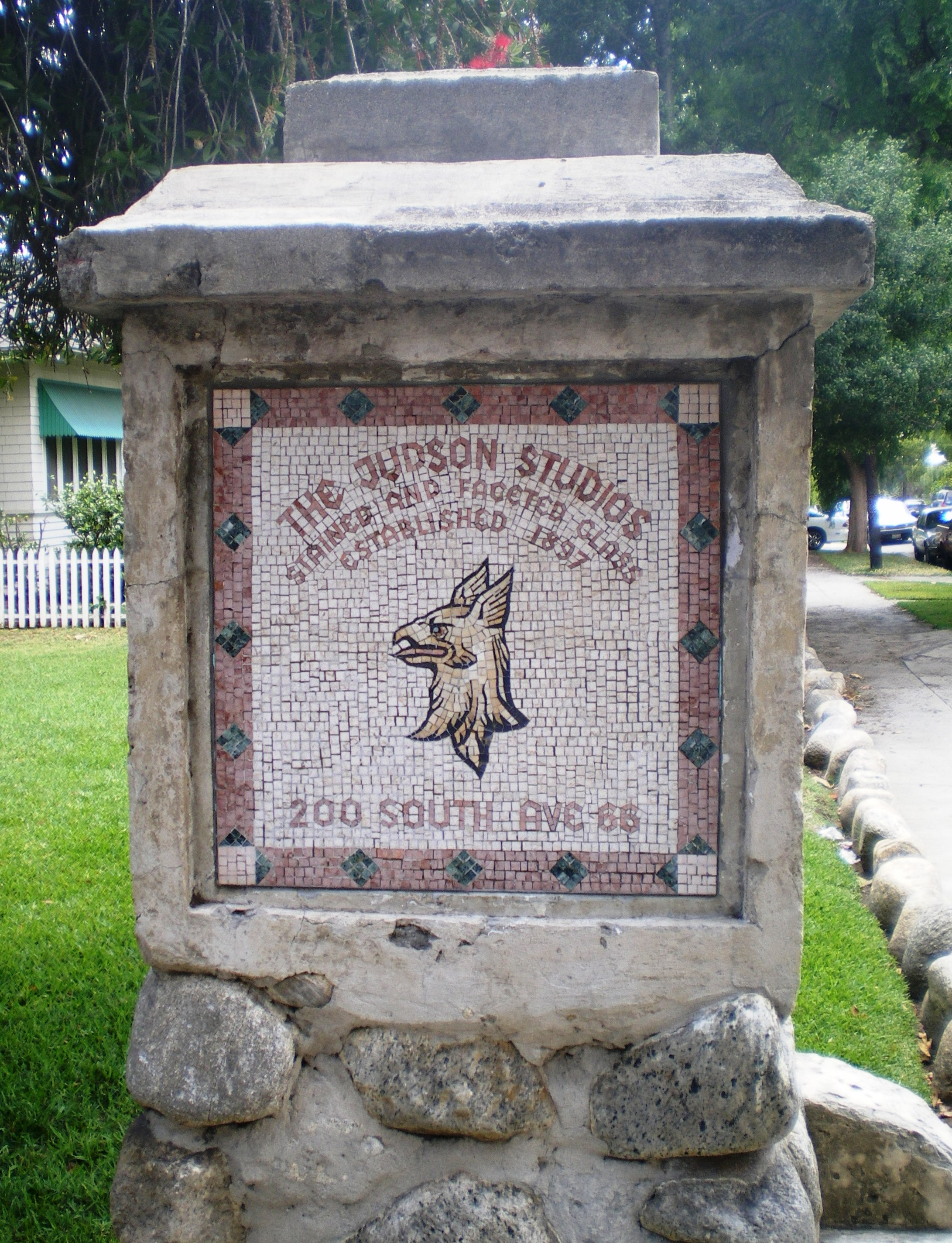 Judson Studios — Sign at Entrance, in the Highland Park district, Northeast Los Angeles, Southern California. American craftsman style artisan elements and art glass studio.